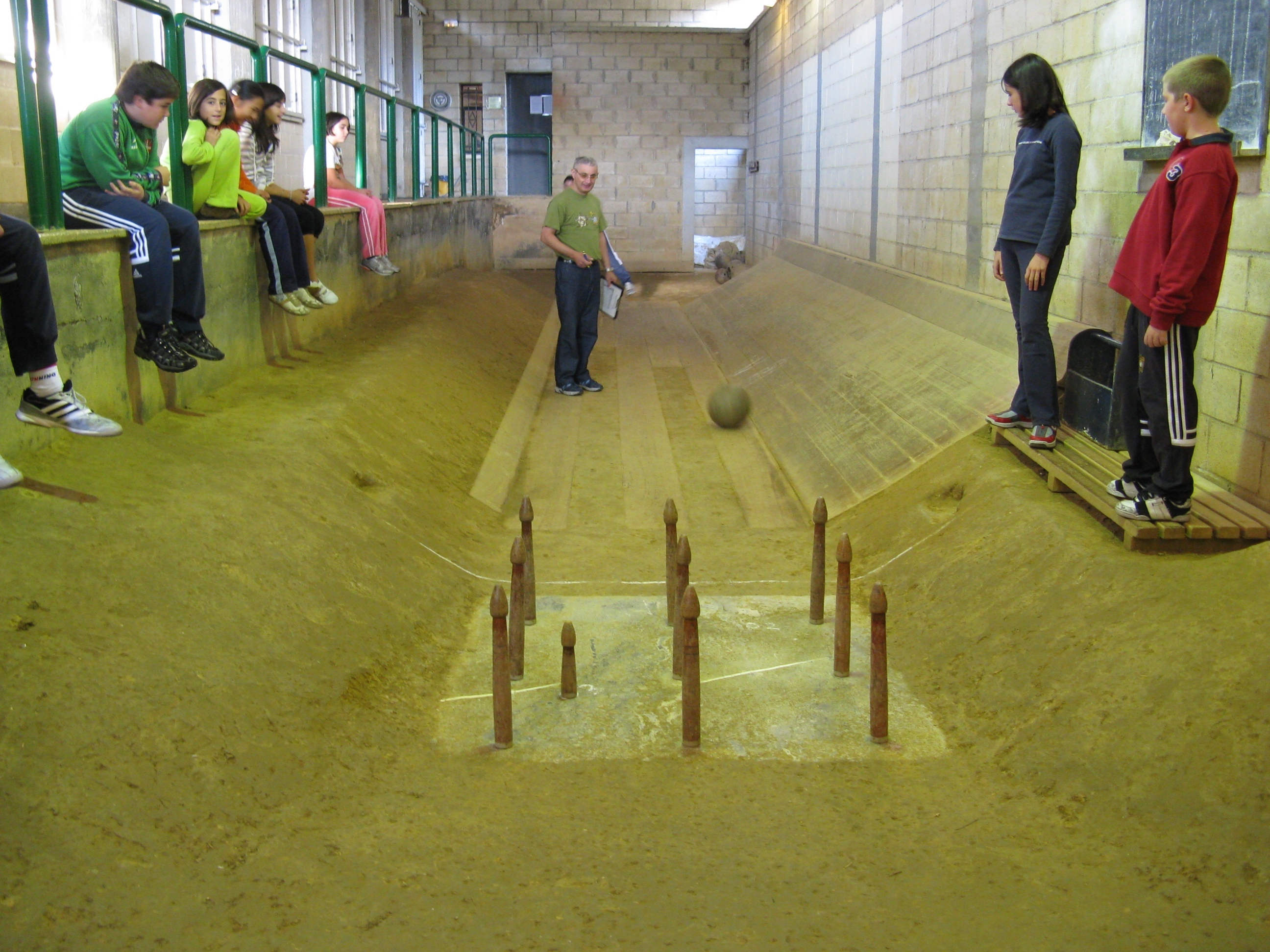 Students of the Laudio High School learning to play Aiara bowls, Erroke Deuna (Saint Roch) bowling alley, Laudio, Araba, Basque Country.